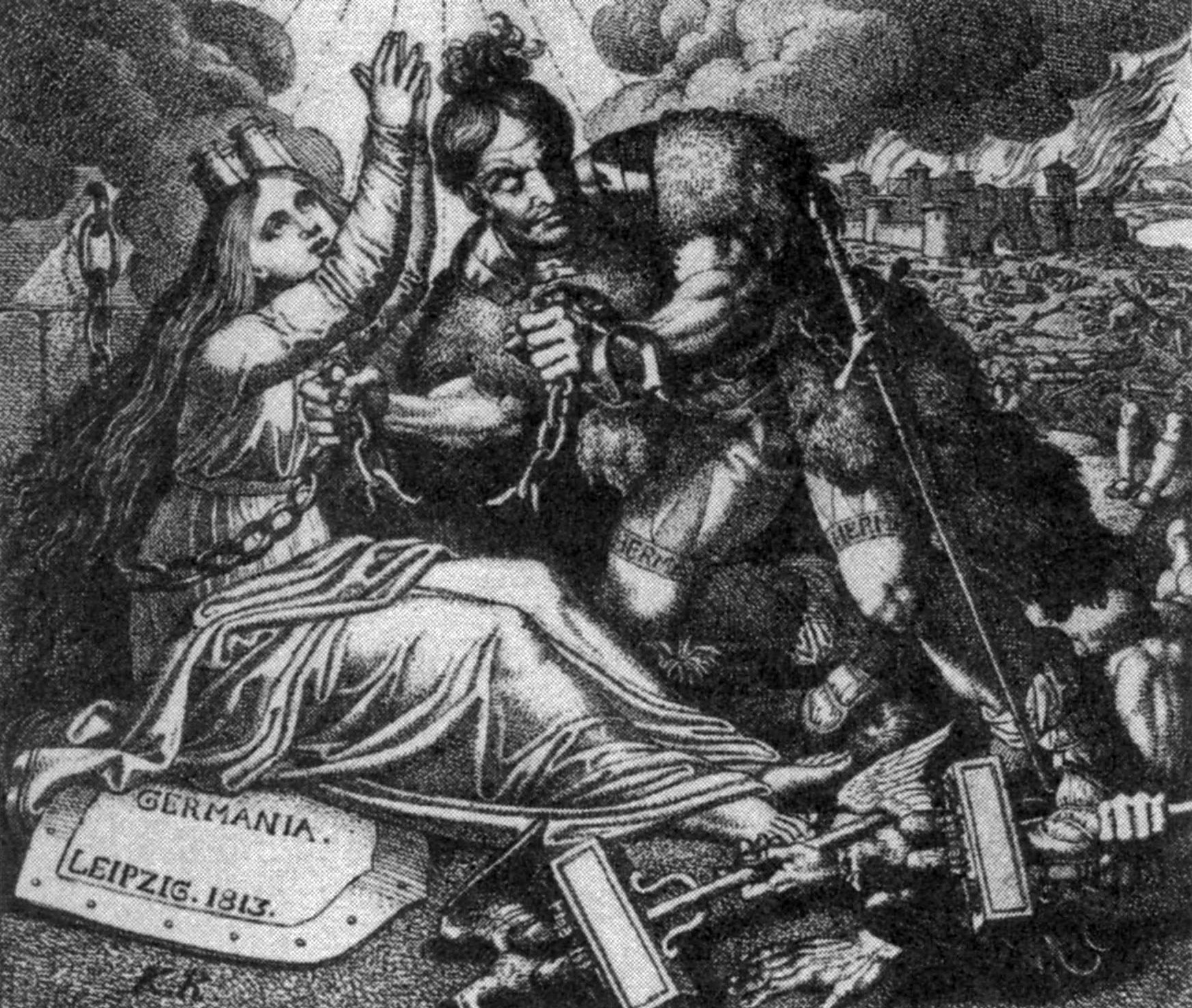 Hermann Frees Germania (Karl Russ, 1818).